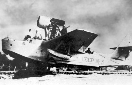 Catalog #: 00075627 Manufacturer: Beriev Designation: MBR-2 Notes: 1939 Beriev MBR-2